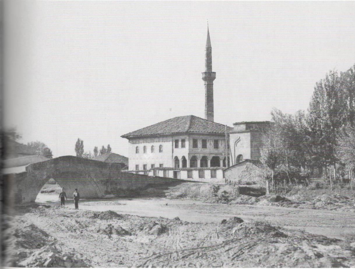 Historic photography of the Painted mosque in Tetovo, Macedonia